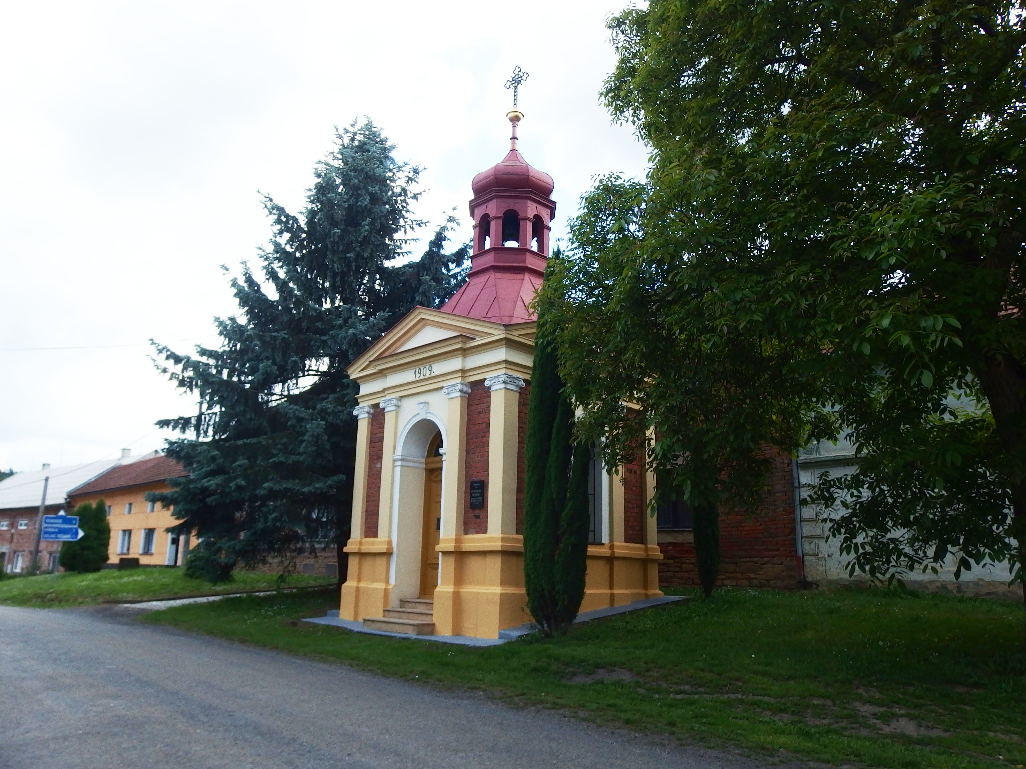 Bařice-Velké Těšany in Kroměříž District, Czech Republic, part Bařice.